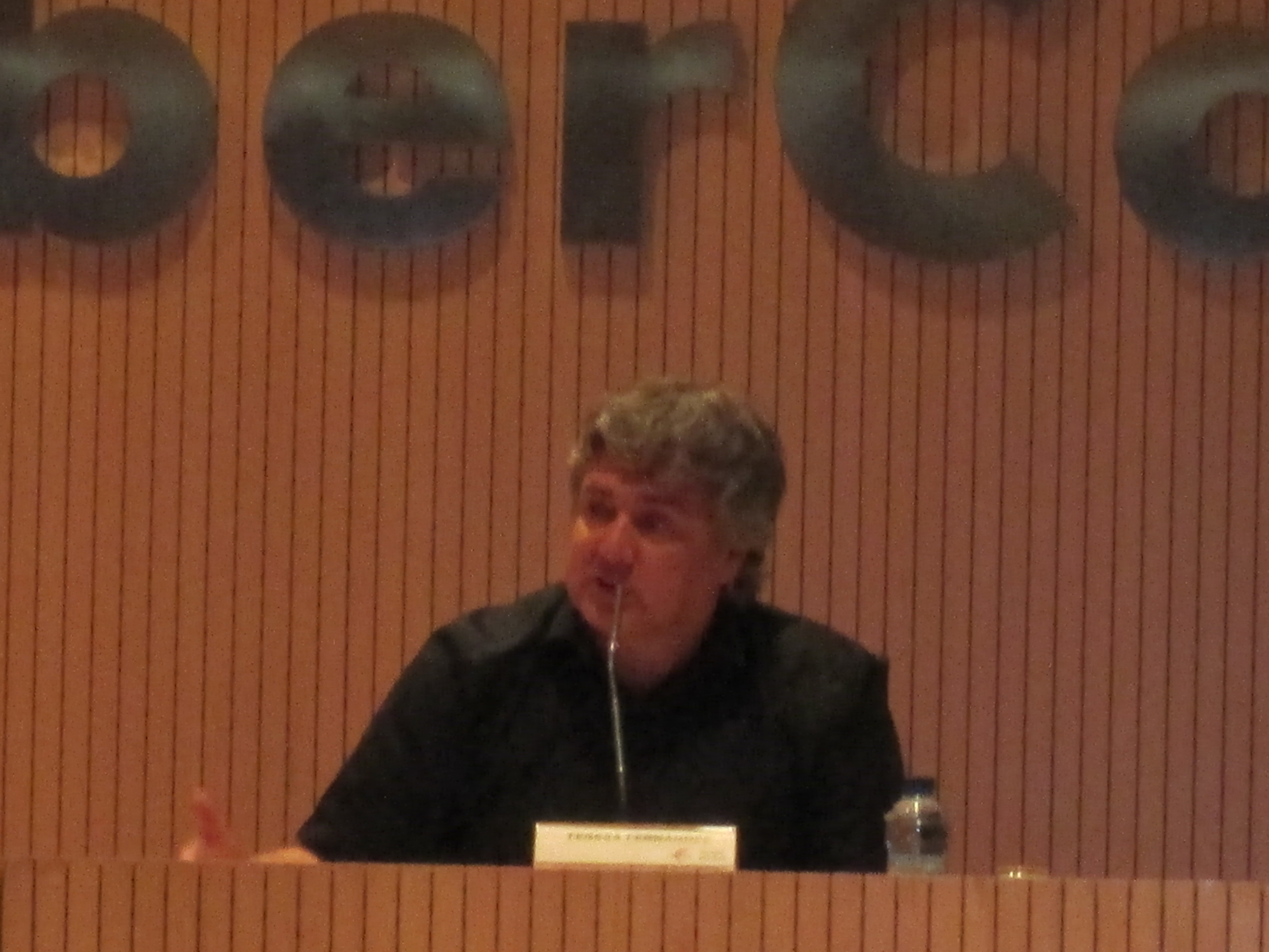 El ex jugador de Futbol Narcis Julia